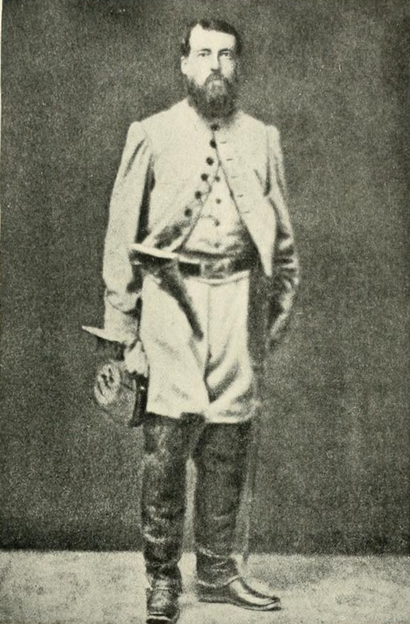 Confederate First Lieutenant John Donnell Smith was photographed in Richmond following the Battle of Chancellorsville in May 1863